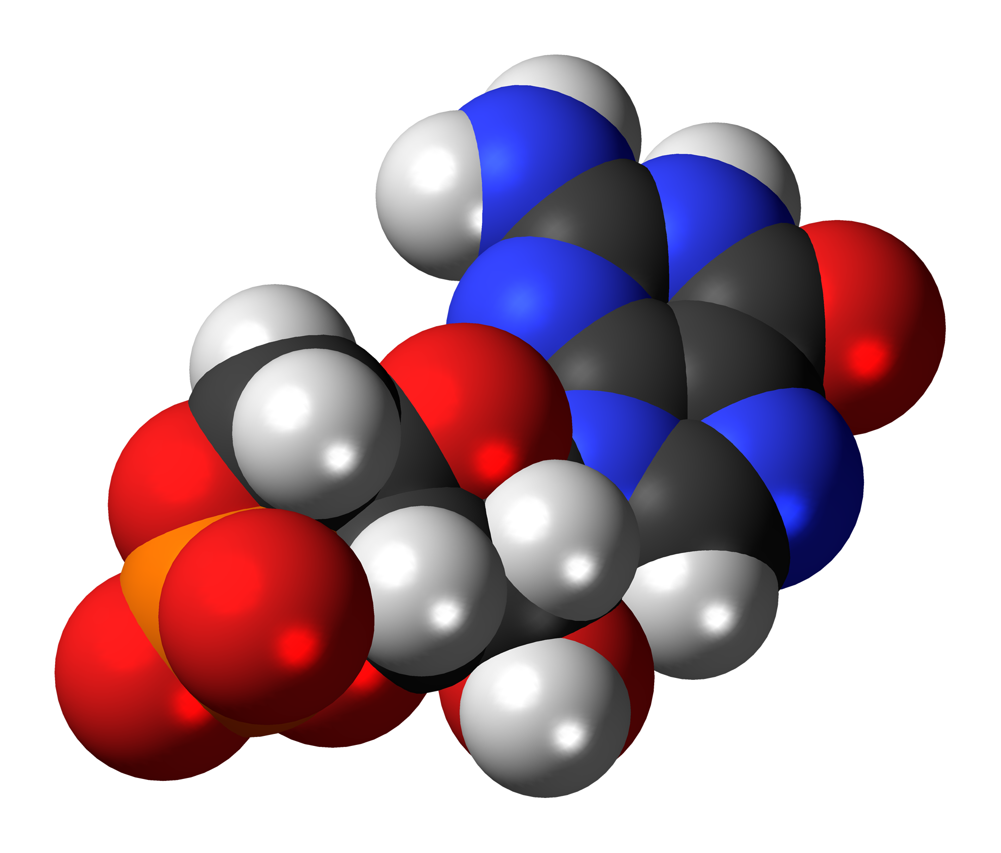 Space-filling model of the cyclic guanosine monophosphate molecule, also known as cGMP, a nucleotide. This image shows the anionic (negatively charged) form. Colour code: Carbon, C: black Hydrogen, H: white Oxygen, O: red Nitrogen, N: blue Phosphorus, P: orange